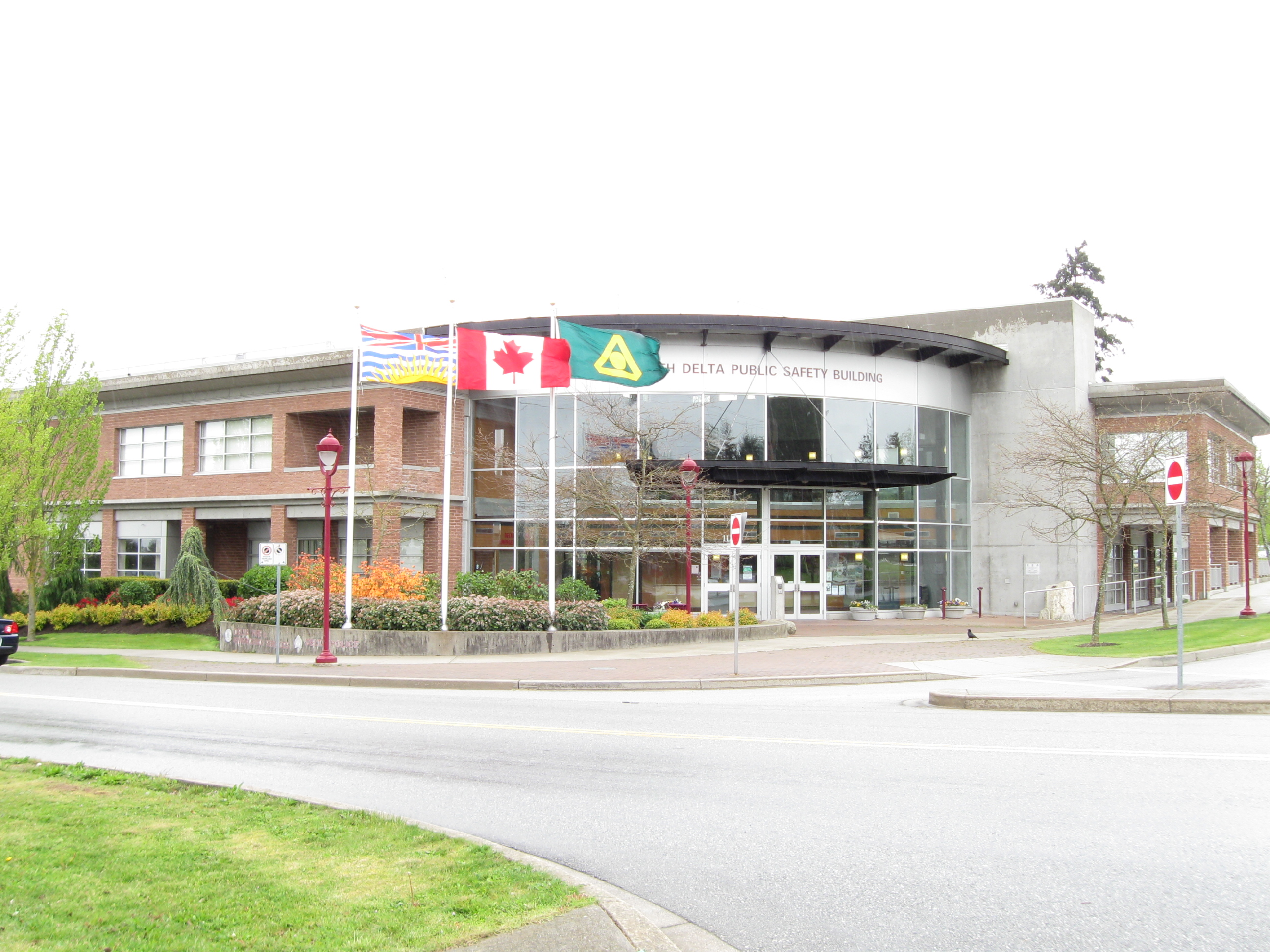 This is a north facing view of the modern North Delta Public Safety building. This red brick structure houses the Delta Police, North Delta Fire and Emergency Services Department and, finally, the Emergency Services Department (Fire Hall No.3). It is located at 11375 84 Avenue in the Corporation of Delta, British Columbia, Canada. The flags of the province of British Columbia, Canada, and the Corporation of Delta (from left to right) can be seen flying proudly here.